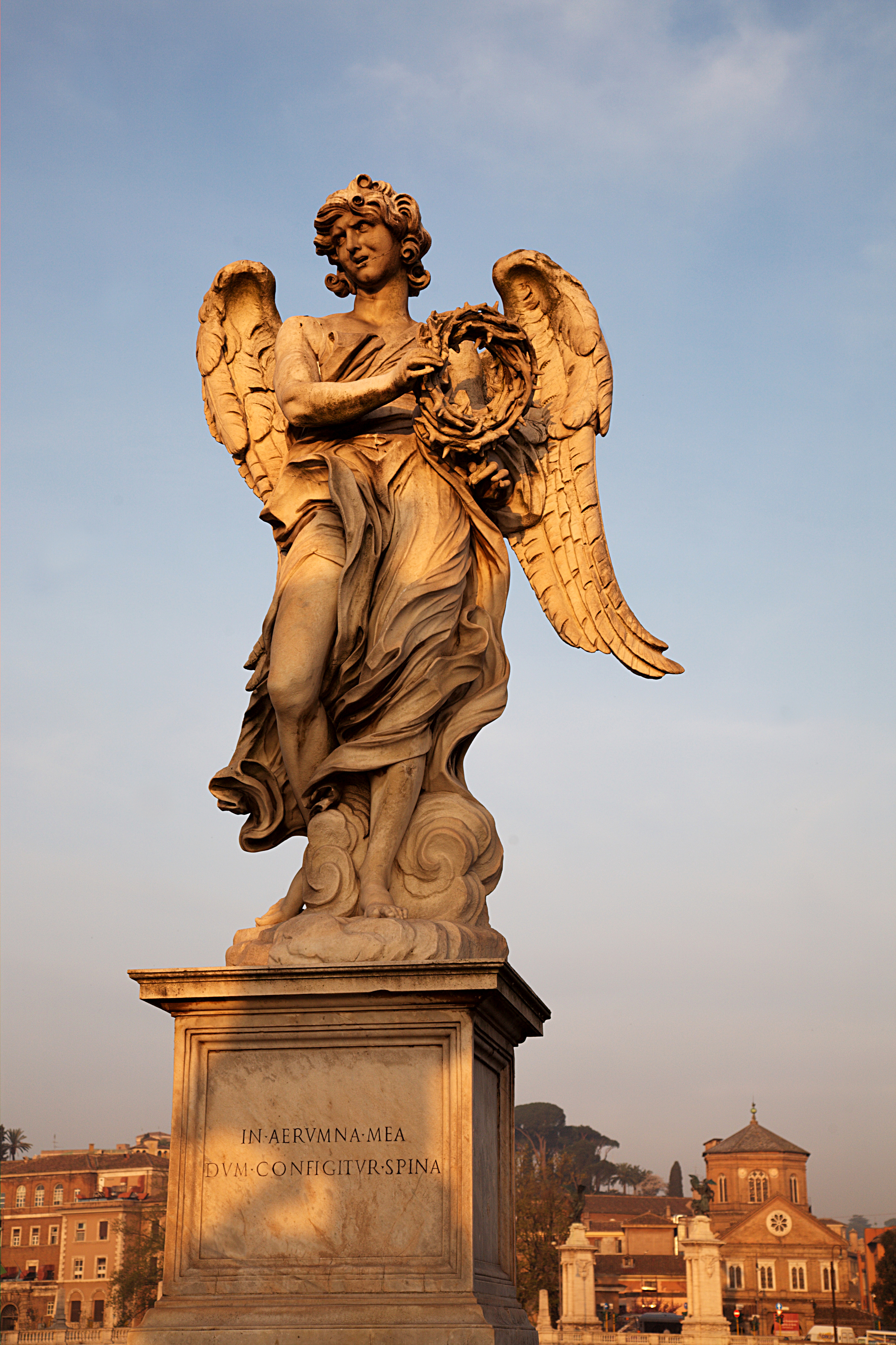 Angel on the western side of Ponte_Sant'Angelo during sunrise